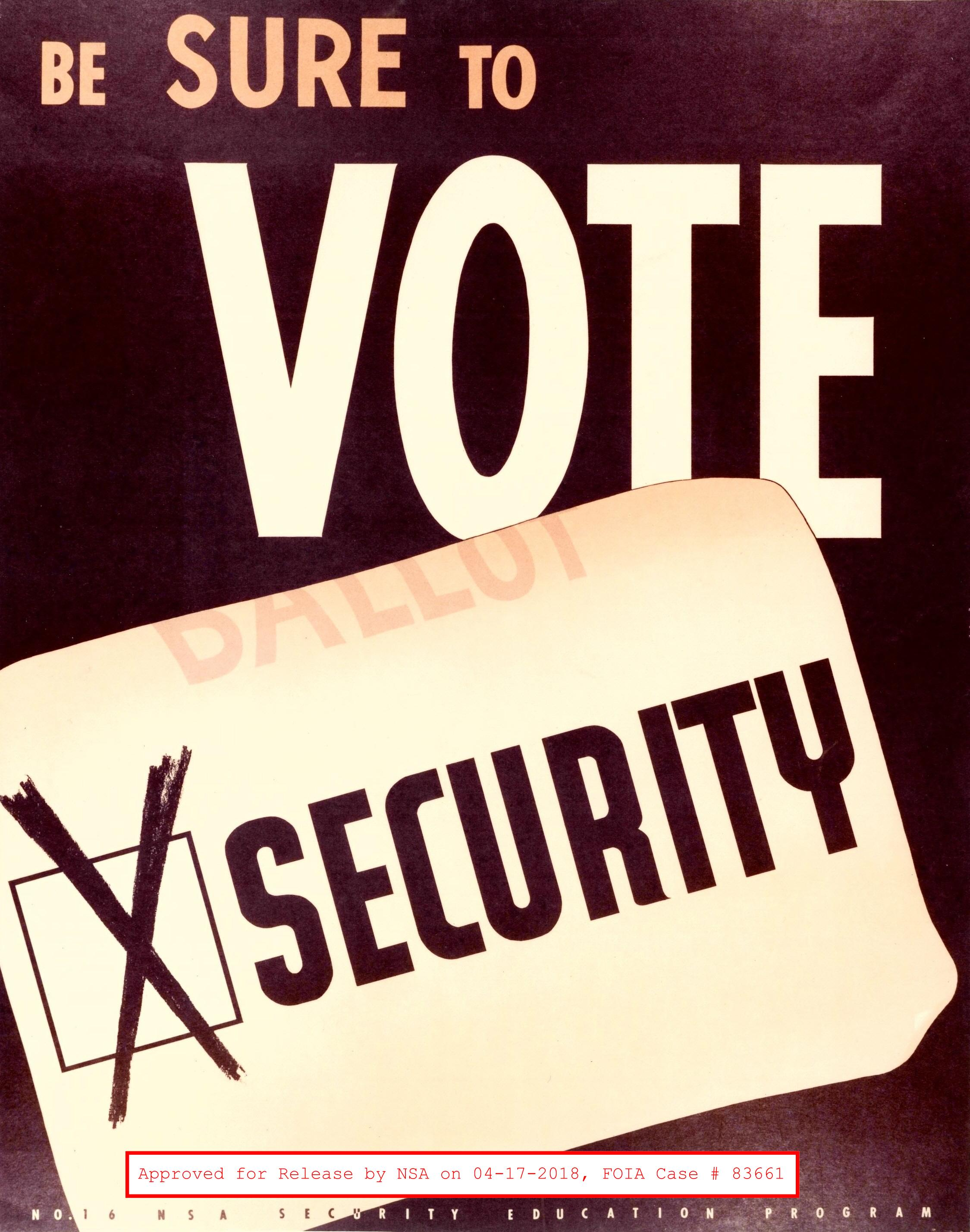 National Security Agency (NSA) security/motivational poster from the 1950s or 1960s.